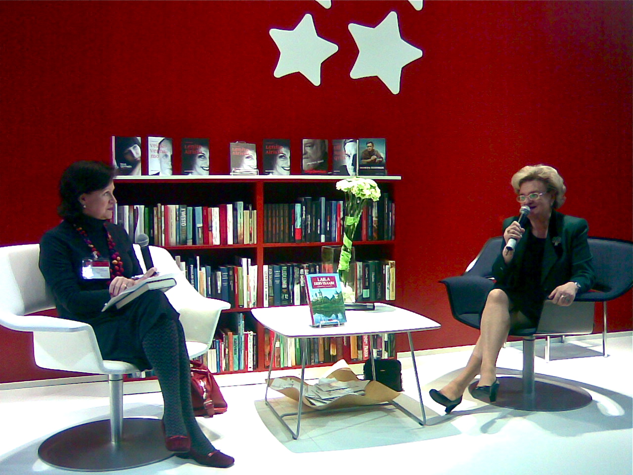 Laila Hirvisaari at Helsinki Book Fair 2009